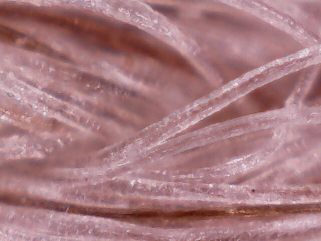 This picture is taken by digital microscope(100x magnification). This is enlarged view of yarn of shawl.